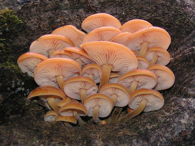 Velvet foot (Flammulina velutipes) at Oberschleißheim, Germany